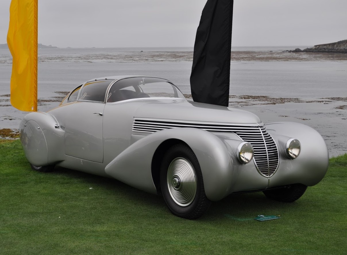 1938 Hispano-Suiza H6B Dubonnet Xenia at the 2012 Pebble Beach Concours d'Elegance